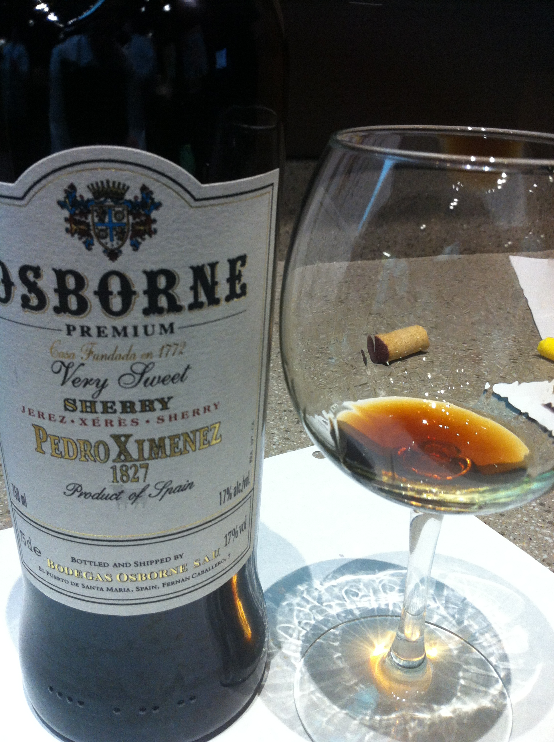 Spanish fortified desert wine made from the Pedro Ximenez grape in a solera.